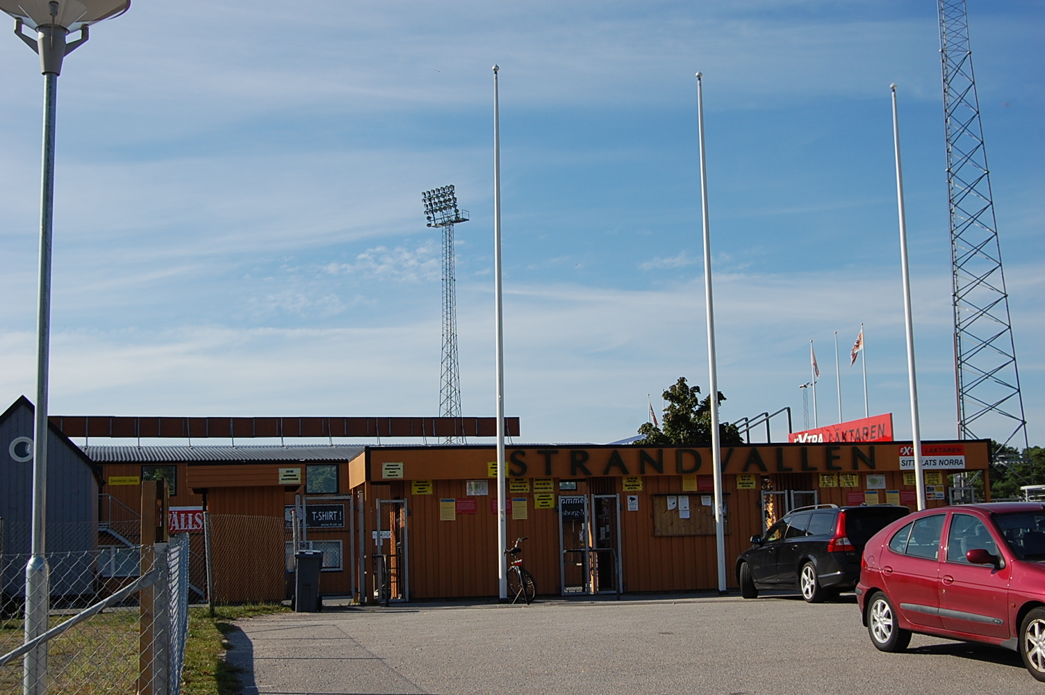 The main entrance to the arena, Strandvallen, of Mjällby AIF